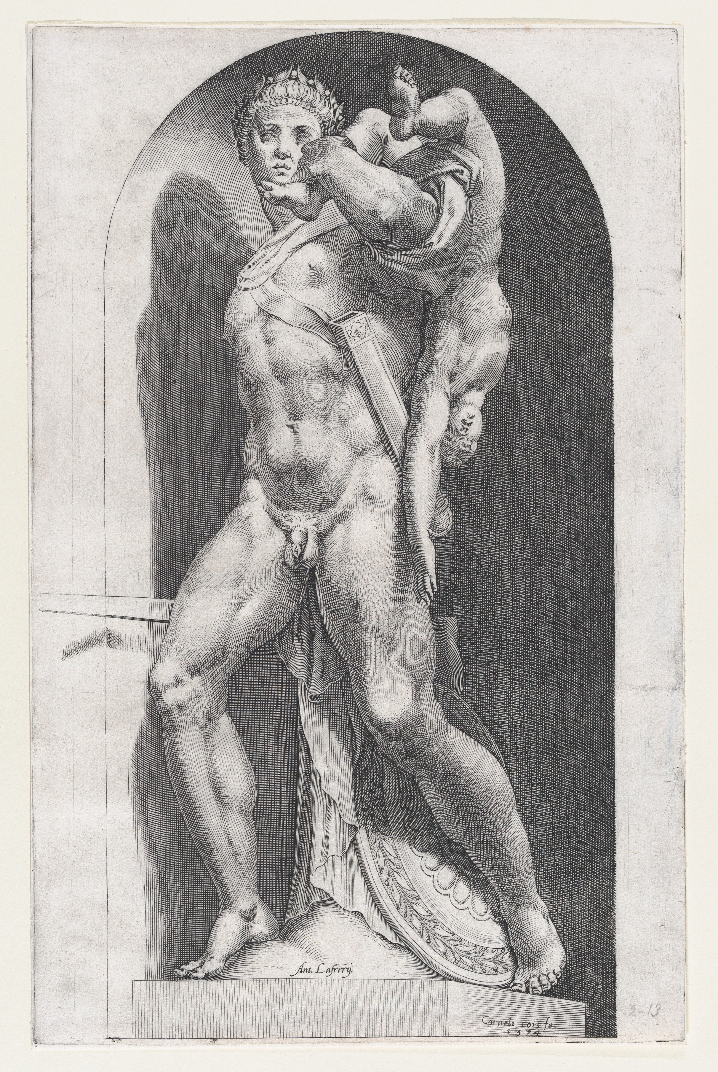 Print; Prints